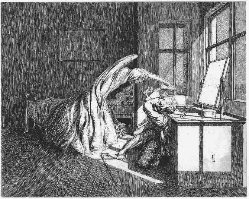 Ghost Stories of an Antiquary, illustration by James McBryde, page 252